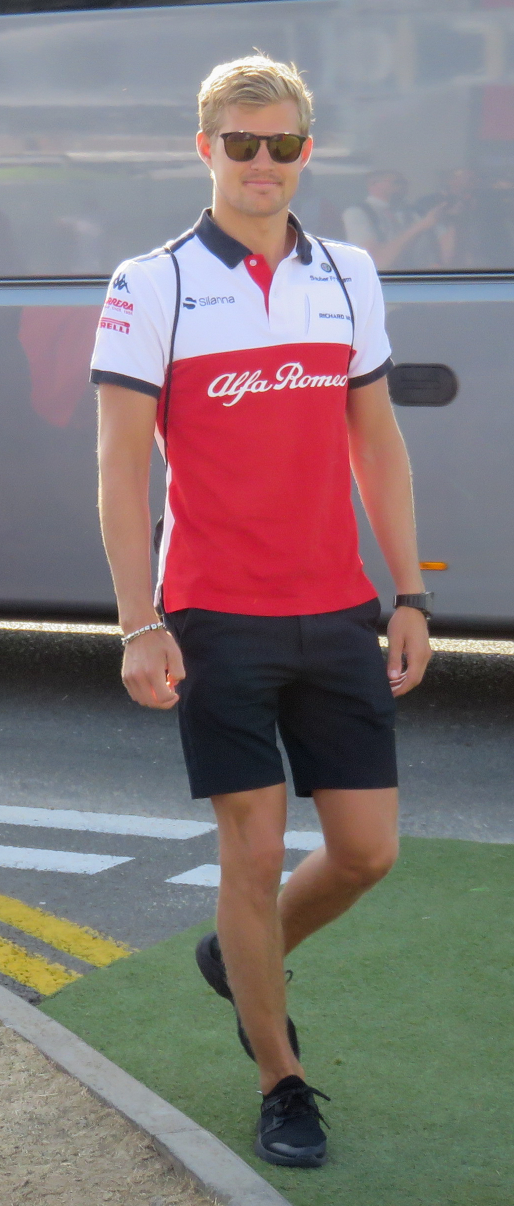 Marcus Ericsson, British GP 2018